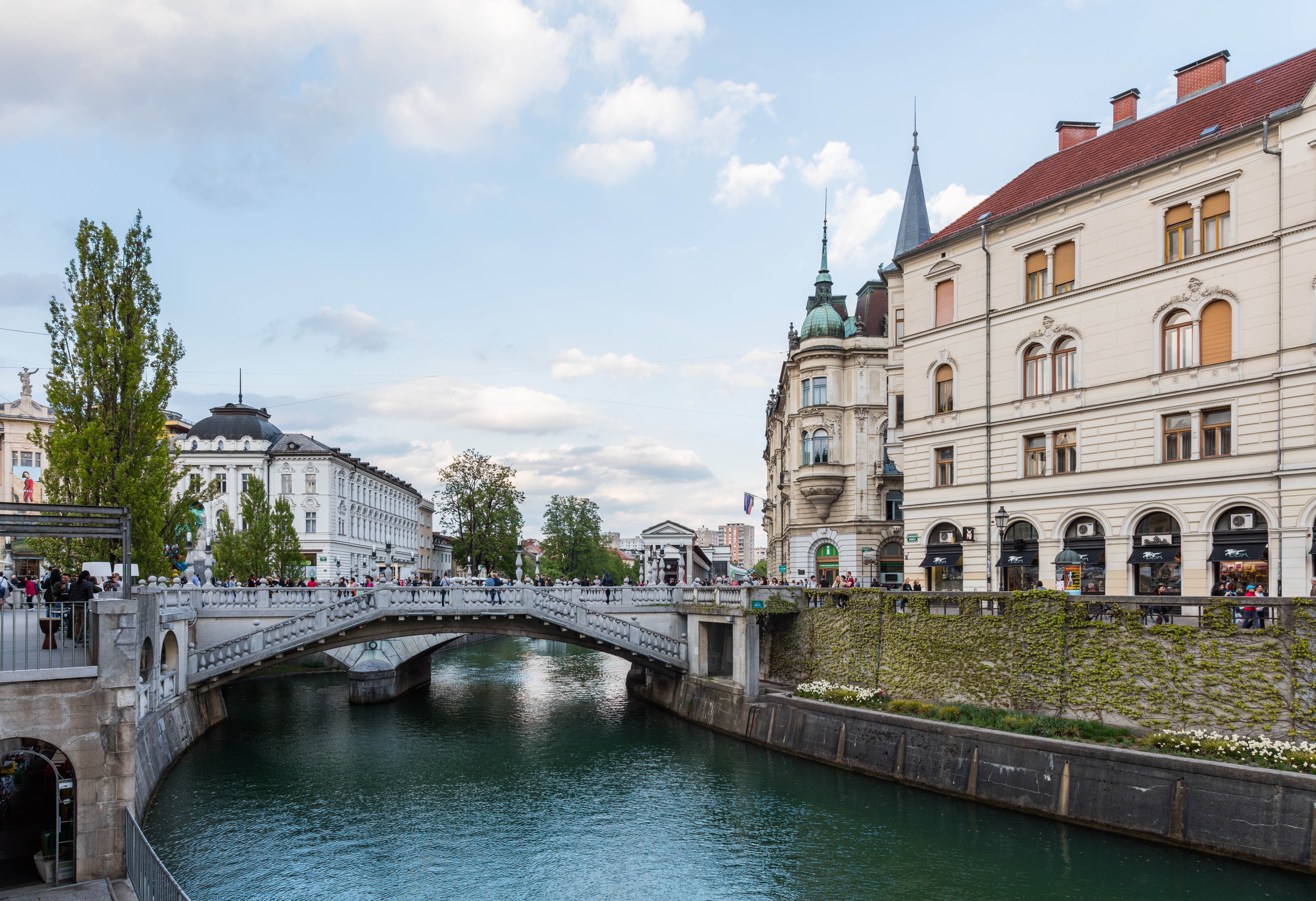 Ljubljanica river and central market, Ljubljana, Slovenia